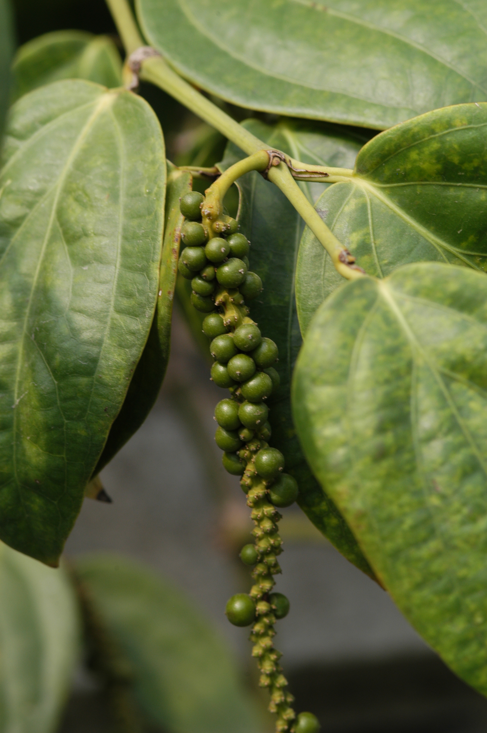 Piper nigrum